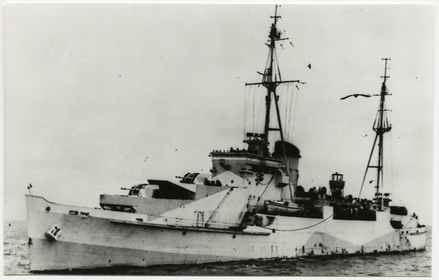 HMS Tynwald pictured on active service.